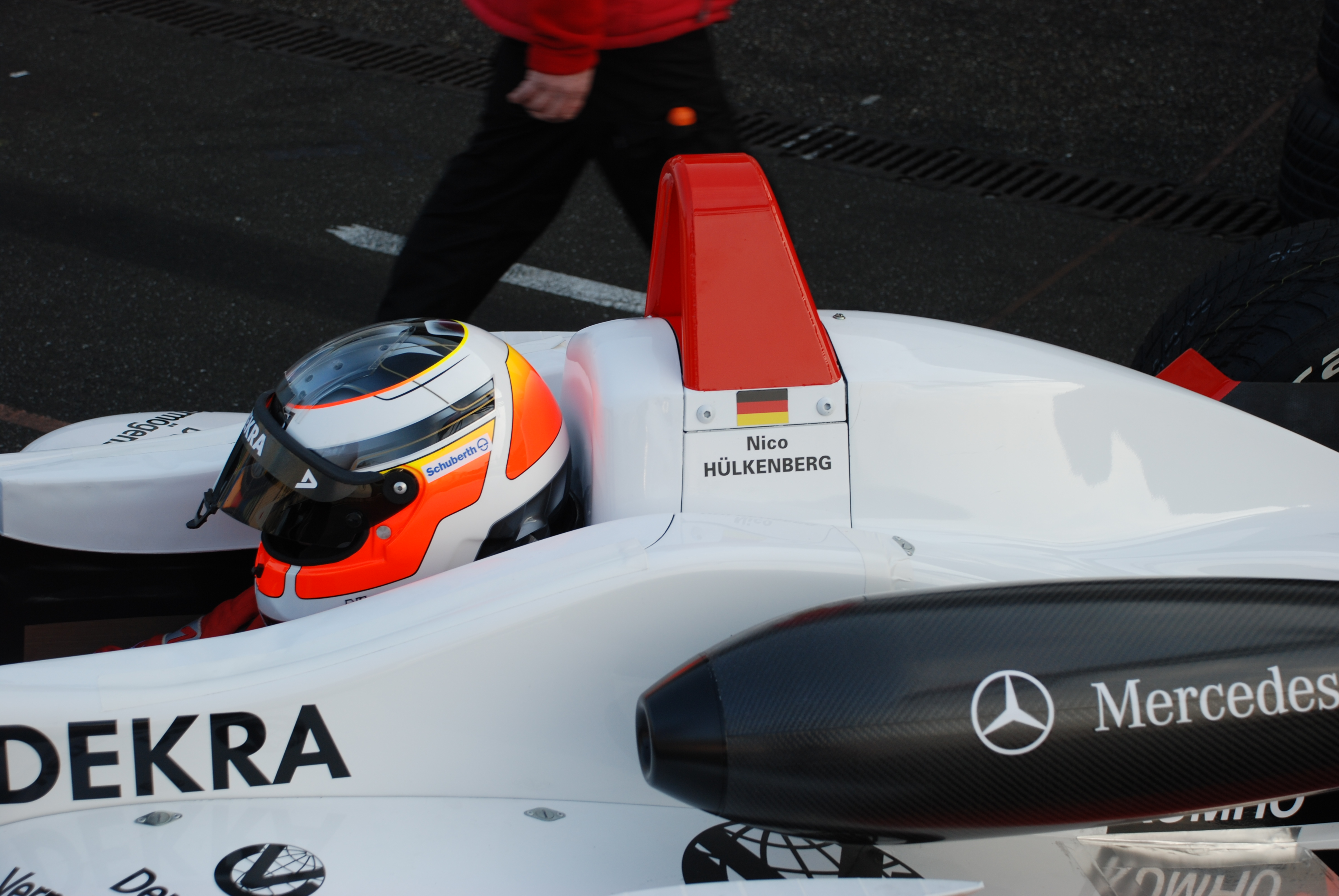 Nico Hülkenberg, Formel-3-Euroserie 2008